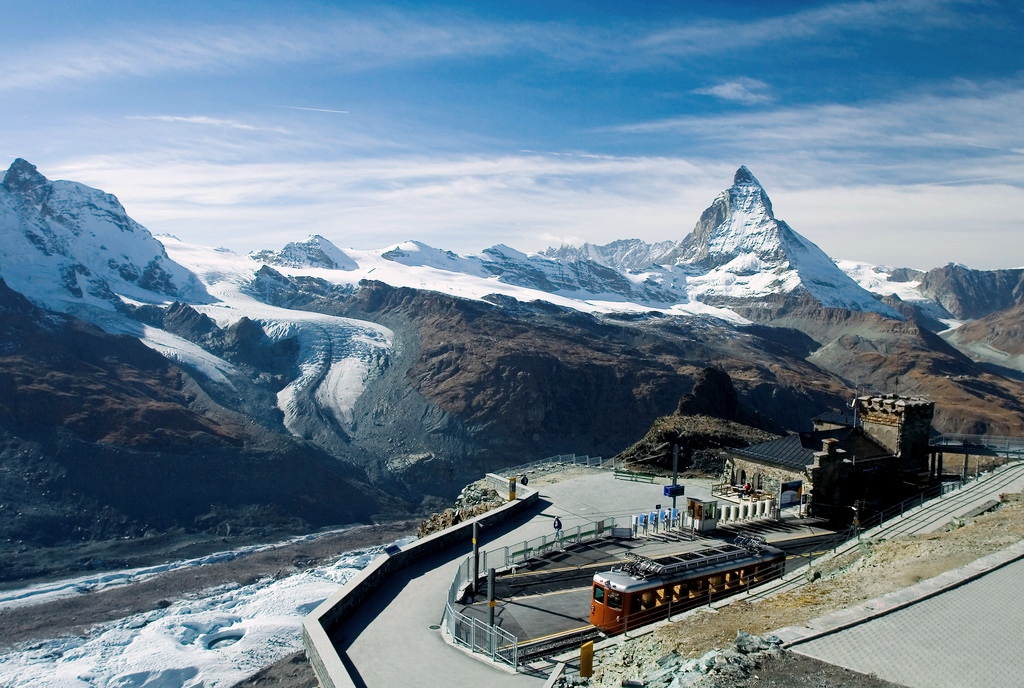 Matterhorn, viewed from Gornergrat railway station, Zermatt, with from left to right, Klein Matterhorn, Breithorn Glacier, Unterer Theodulgletscher (the nowadays disconnected Lower Theodul Glacier), Oberer Theodulgletscher (Upper Theodul Glacier), Furgggletscher under Matterhorn (June 2006) ; Gorner Glacier, which comes down from Monte Rosa is not visible, down on the left.